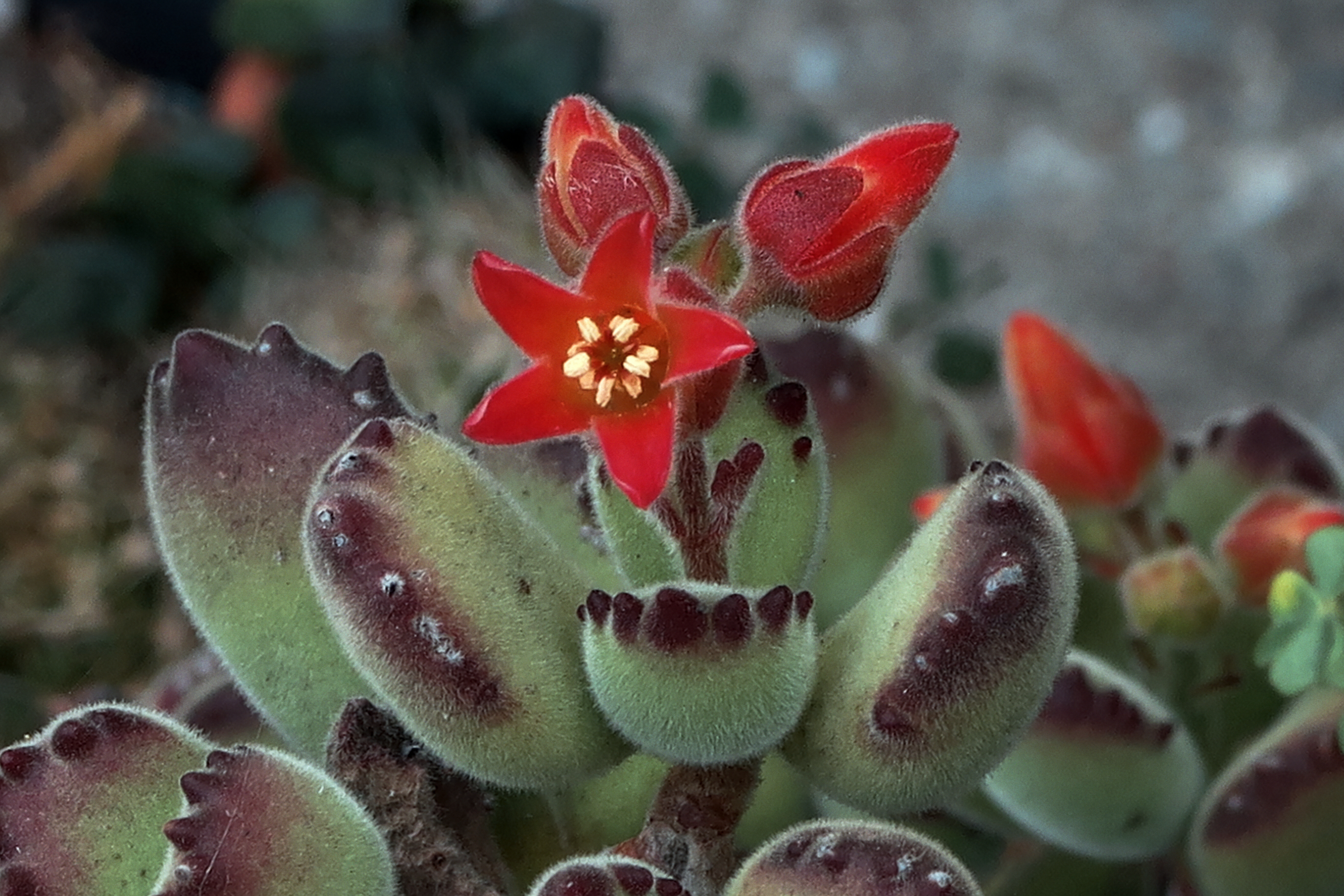 Unidentified. I need all the help I can get. Photographed in a private garden in Berkeley, CA 4 Oct 2017—identified as Cotyledon tomentosa